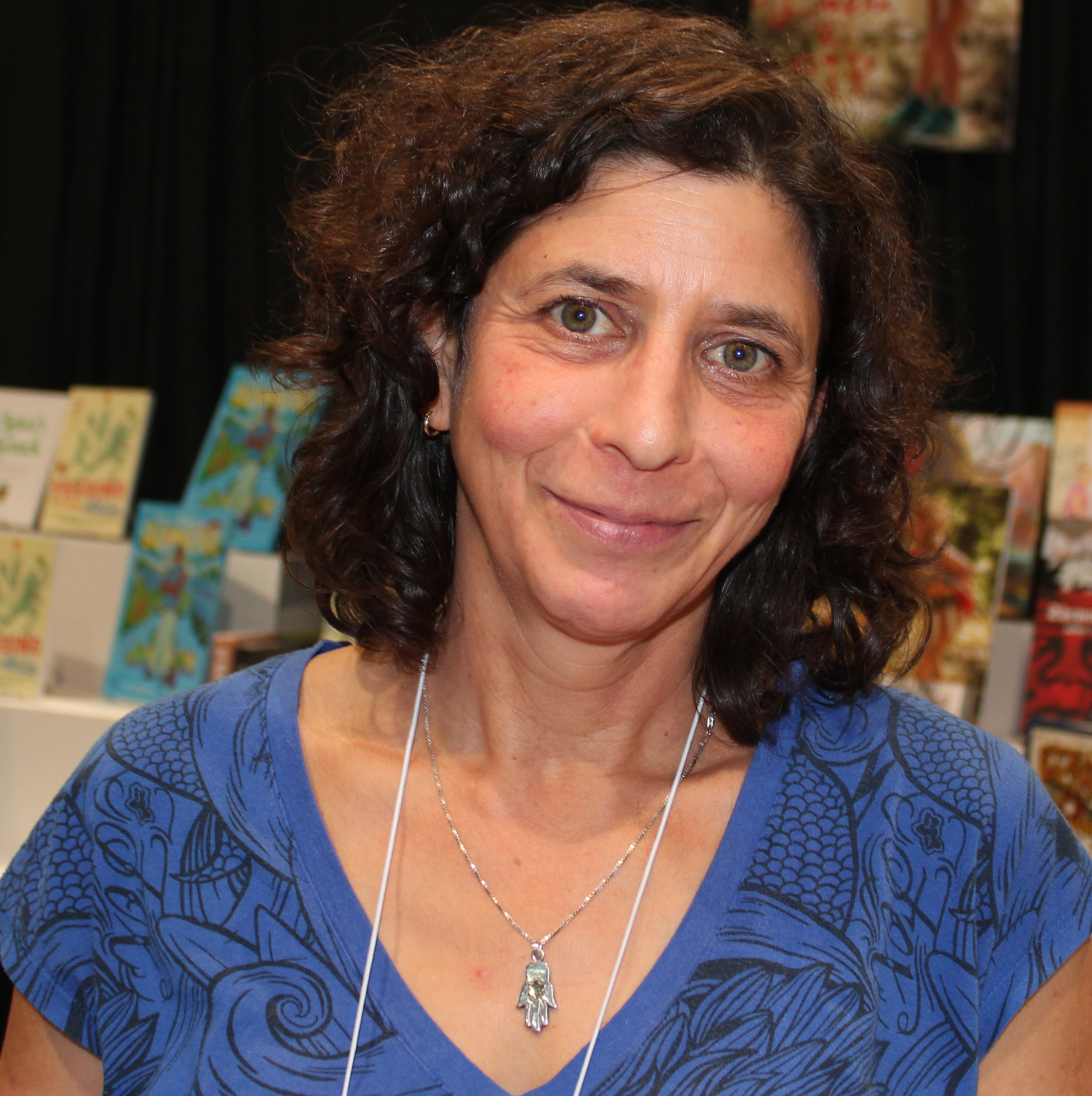 Marissa Moss, an American children's book illustrator and author.